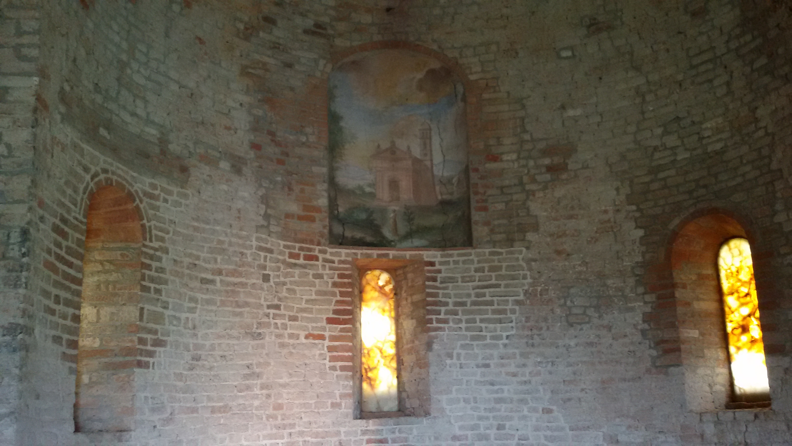 San Genesio Church